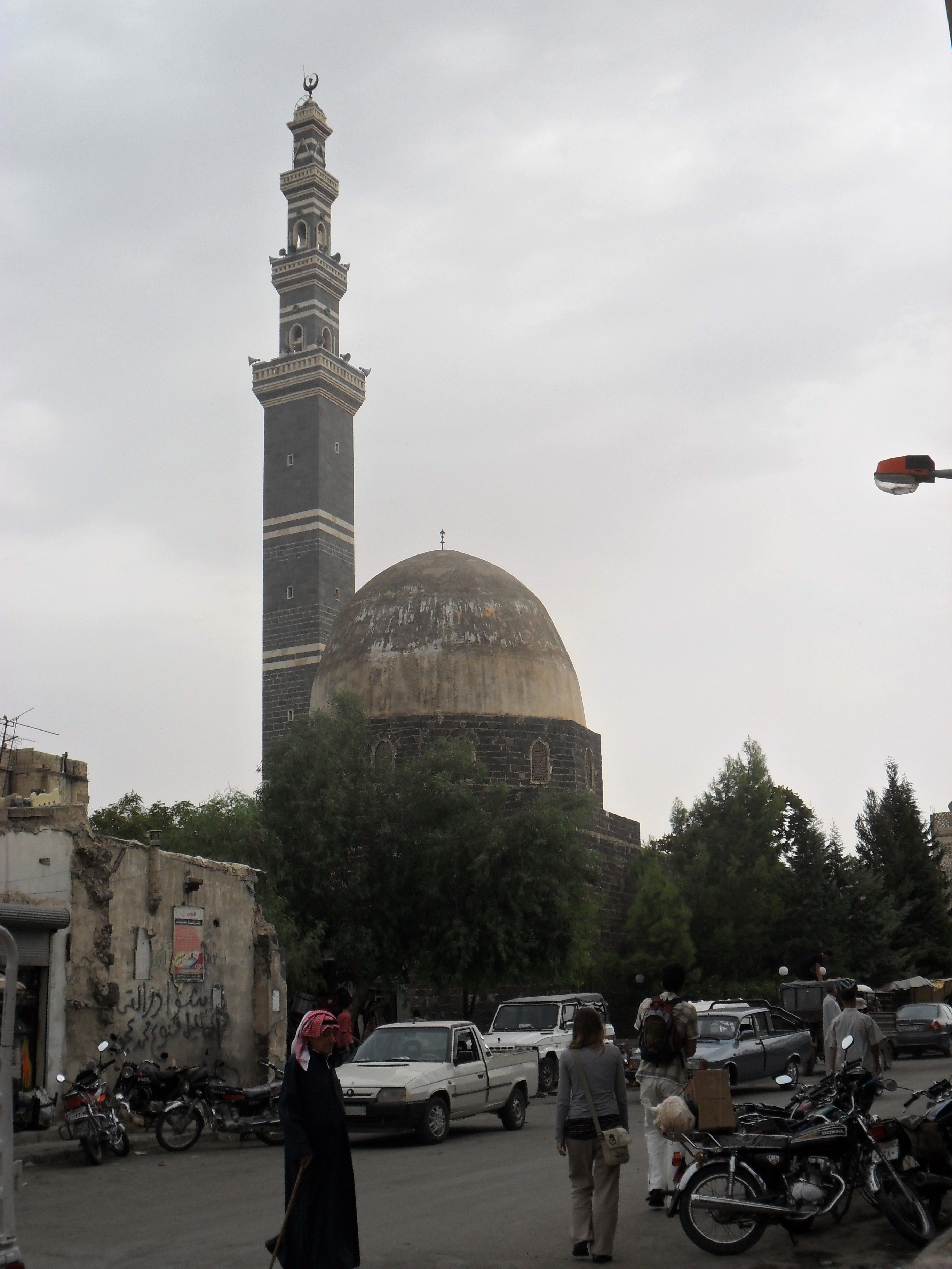 A mosque in Salamiyah, Syria.